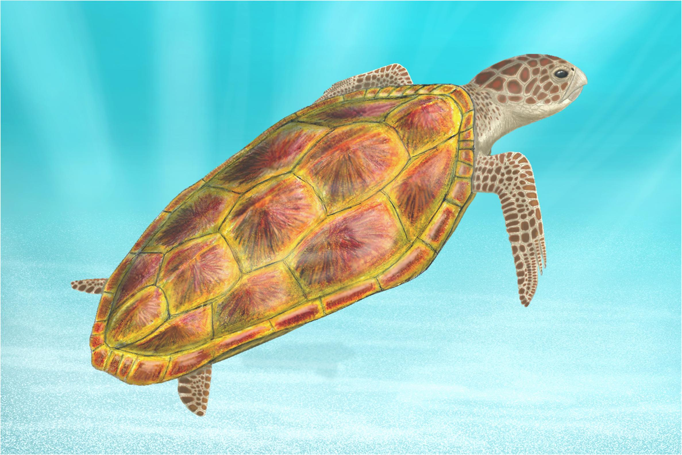 Life restoration of Santanachelys gaffneyi.